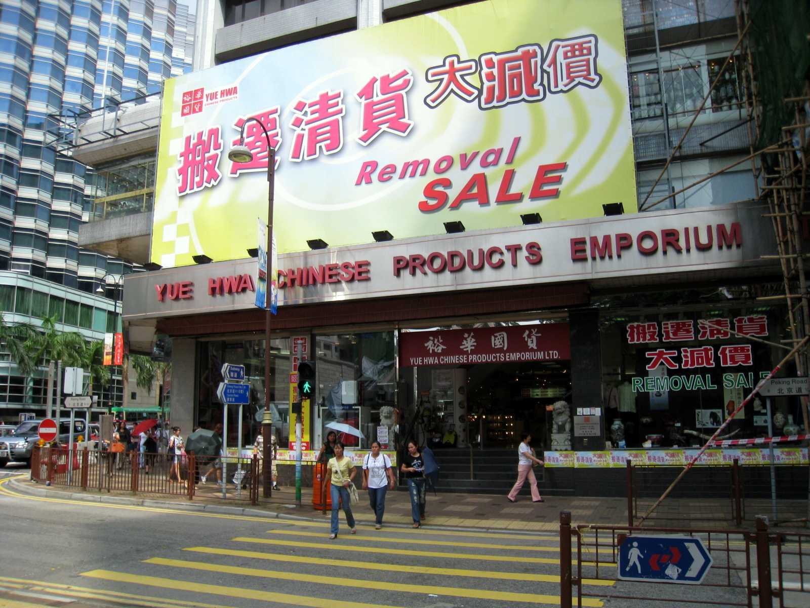 Yue Hwa Chinese Products Store in Tsim Sha Tsui 裕華國貨於尖沙咀北京道分店